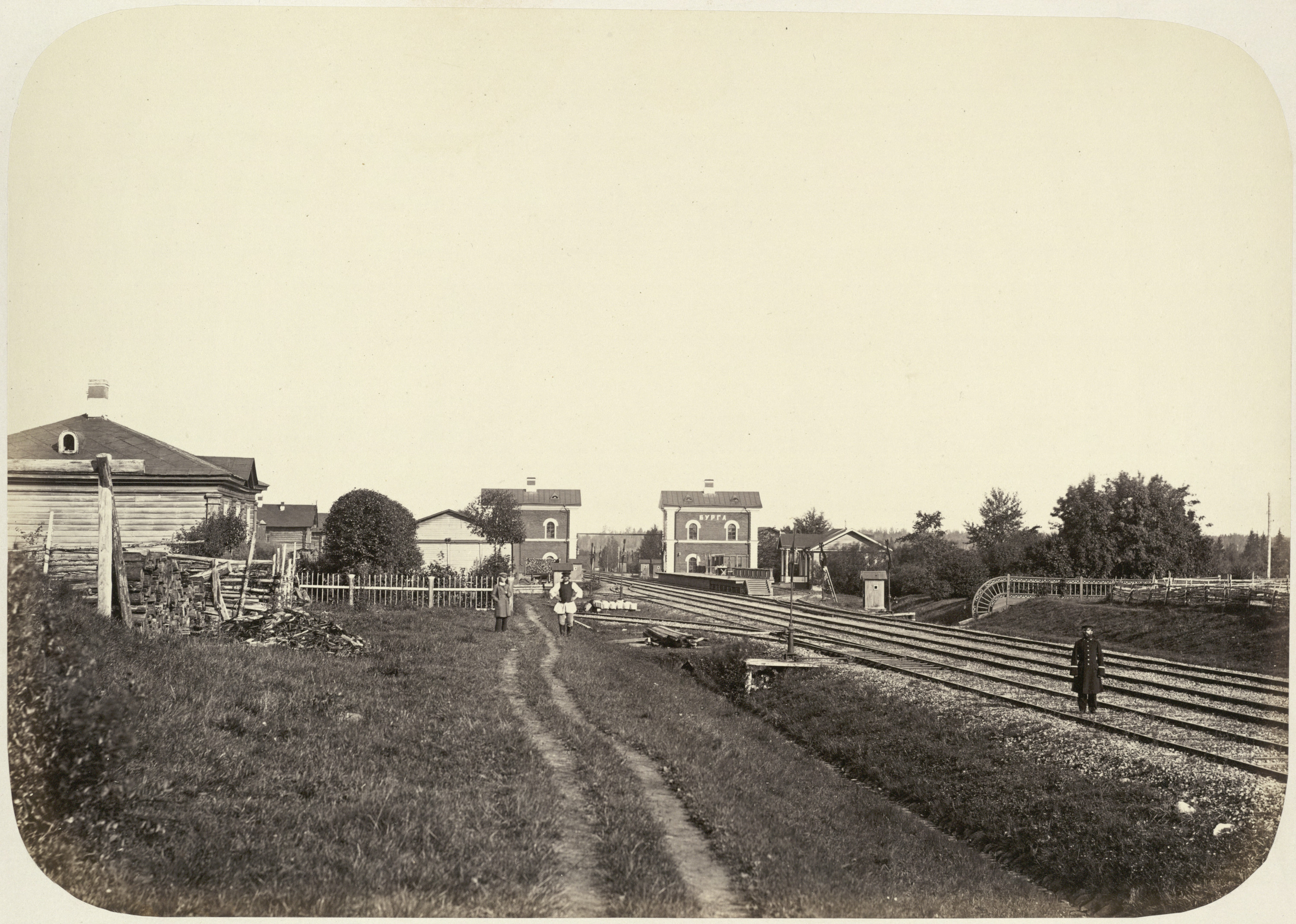 Railway station Burga